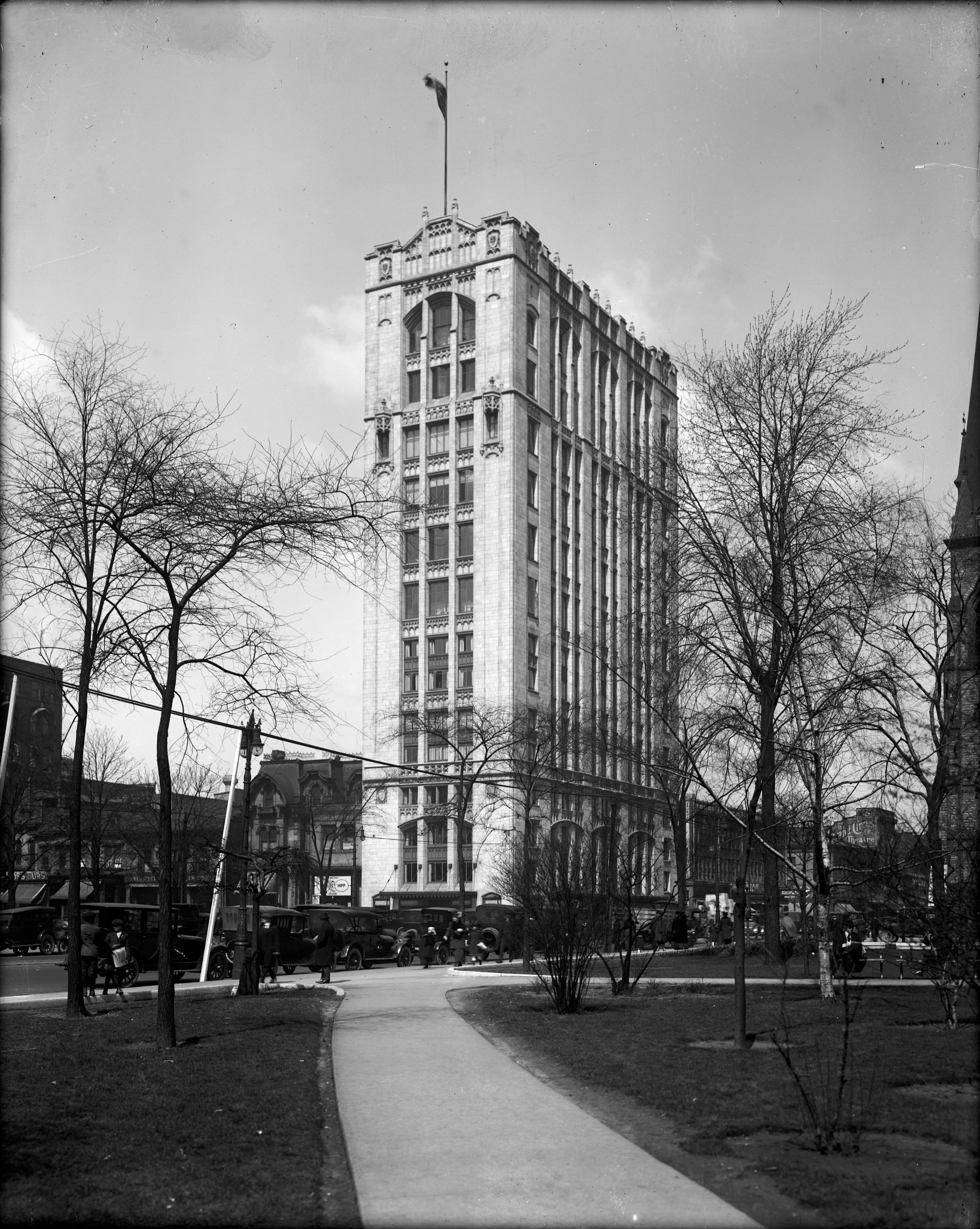 Fyfe's Shoe Building and Grand Circus Park, downtown Detroit, Mich. (c. 1910s)